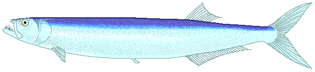 Dorab wolf-herring (Chirocentrus dorab), a species of wolf herring (family Chirocentridae). Drawing by former FishBase artist Robbie Cada.